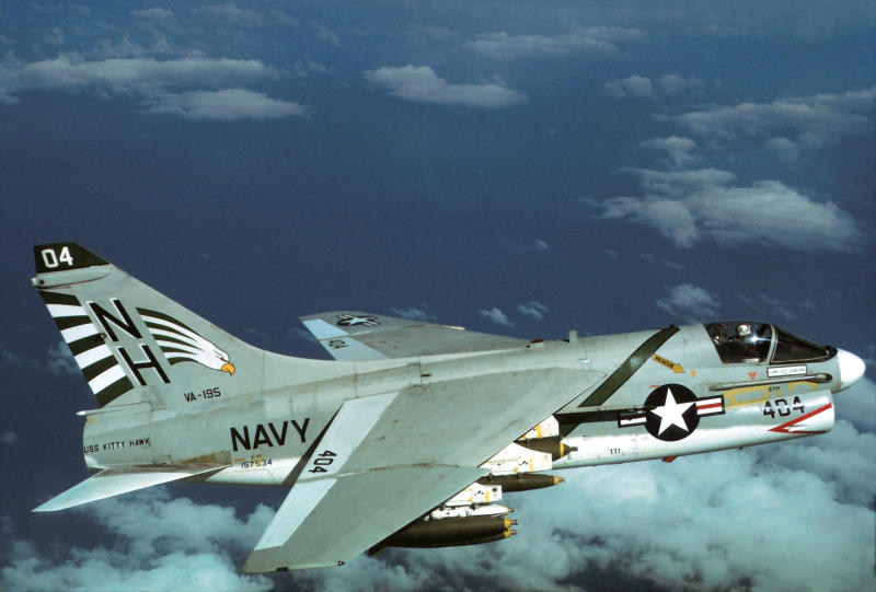 A U.S. Navy Ling-Temco-Vought A-7E-7-CV Corsair II (BuNo 157534) of attack squadron VA-195 Dambusters on a bombing mission over North Vietnam in 1970. VA-195 was assigned to Carrier Air Wing Eleven (CVW-11) aboard the aircraft carrier USS Kitty Hawk (CVA-63) for a deployment to Vietnam from 6 November 1970 to 17 July 1971.